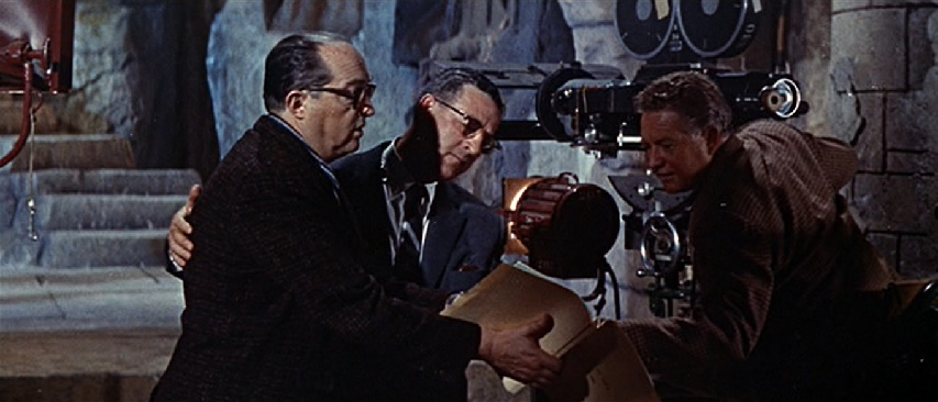 From left to right: director Henry Koster, producer Samuel G. Engel, and cameraman Arthur E. Arling on the set of the film The Story of Ruth.